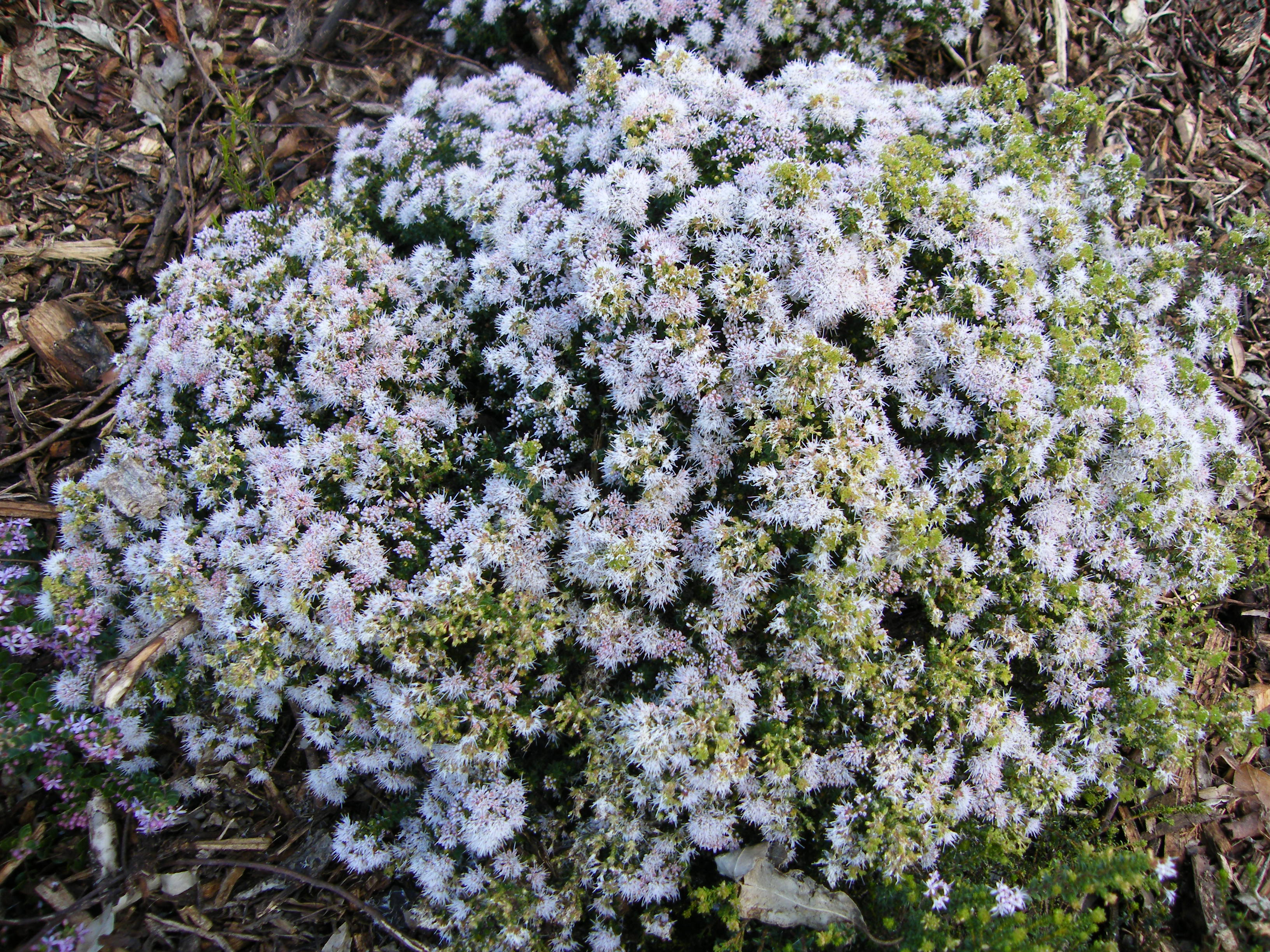 Kirstenbosch Gardens Cape Town